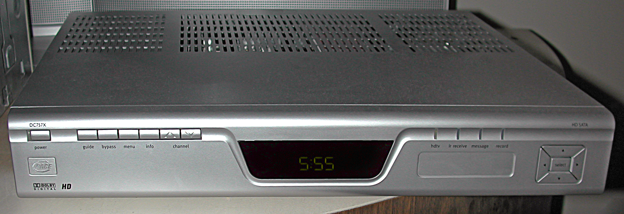 Pace DC757X HDMI HDTV cable box. Features eSATA port for DVR features.